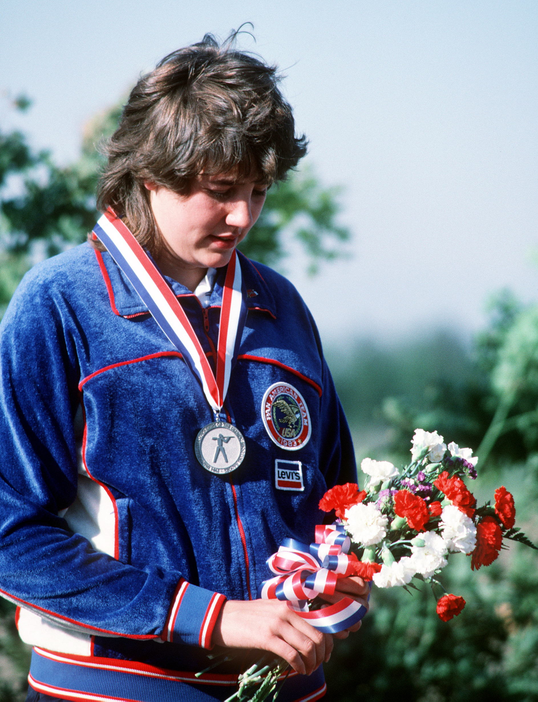 Pat Spurgin poses for a photo with the silver medal she won in the women's three-position small-bore rifle event of the Olympic Shooting Range during Inaugural Competition. The international competition is serving as a test of the facility prior to the 1984 Olympic Games. (original text)